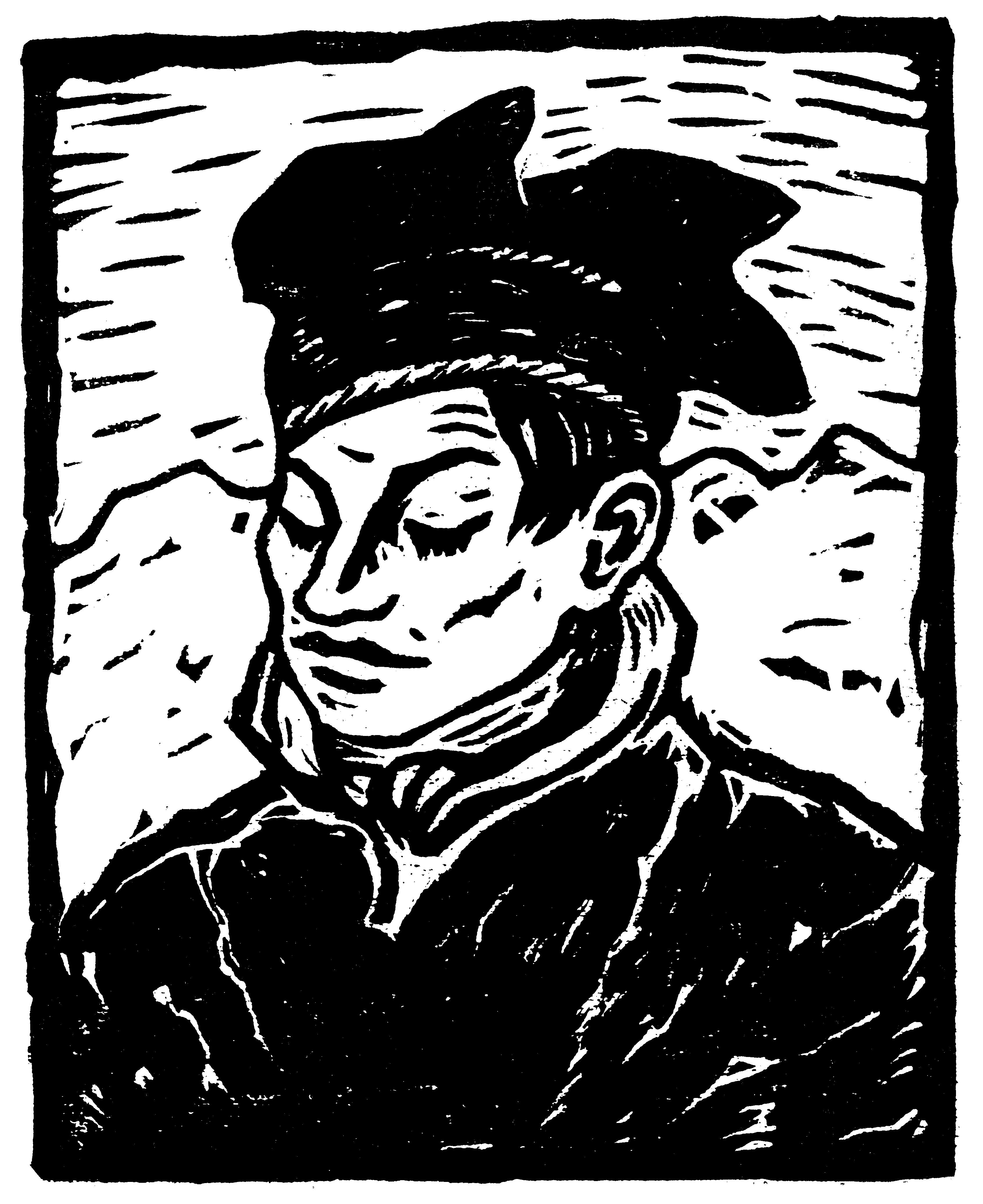 Title: "Ganda" (Sami, English translation: "Boy") Type: Woodcut Source: Scanned from the book "John Andreas Savio Grafikk" by Arnstein Berntsen and Øistein Parmann. Published by Dreyer in1980. ISBN 82-09-01883-3